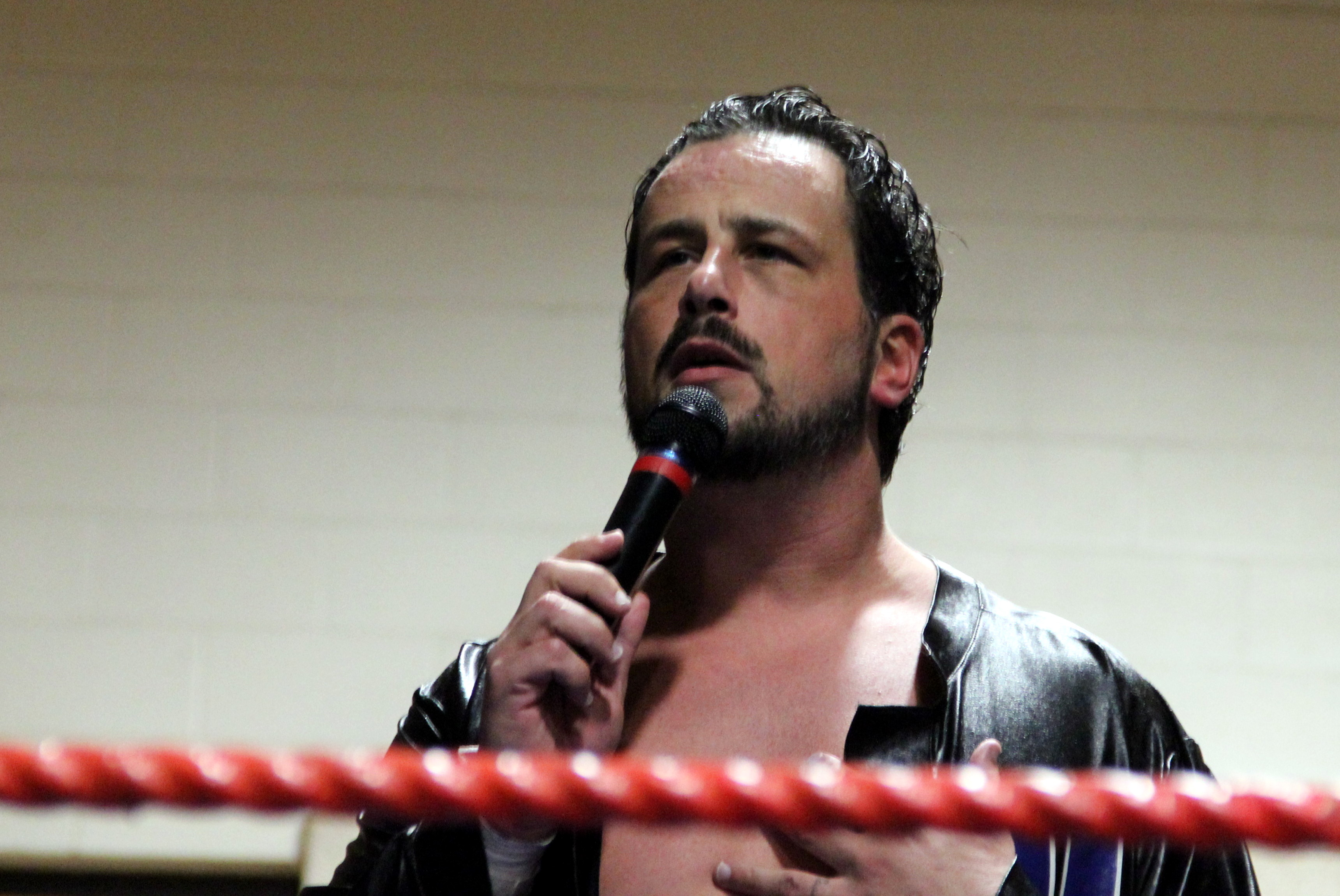 Steve Corino at a PWF-NE show on February 20, 2012 in Providence, RI.